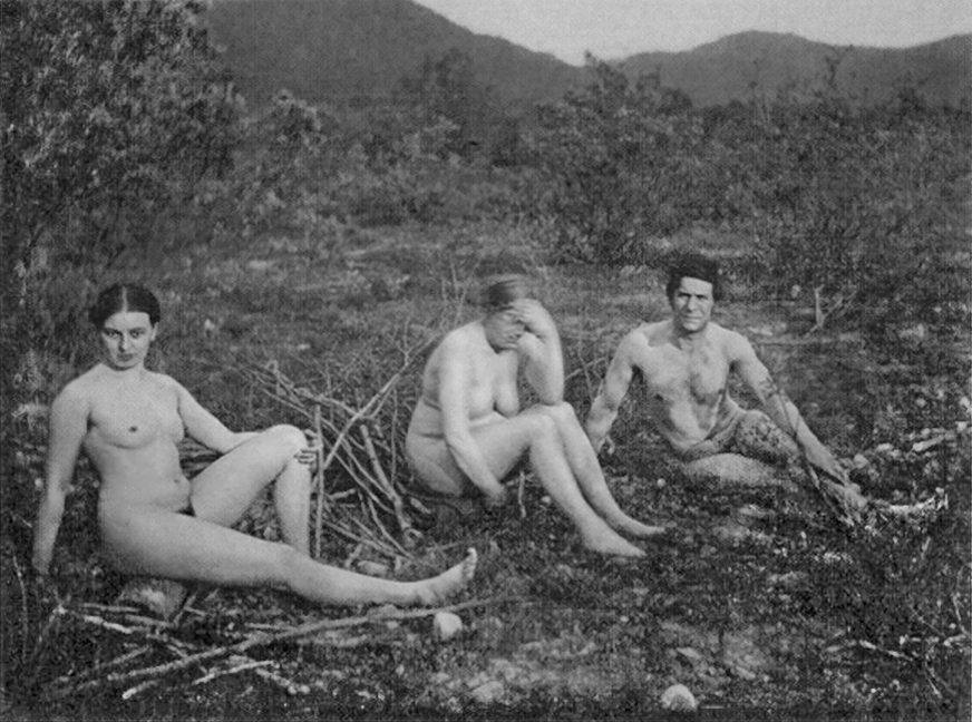 Naturism photo on the shores of Lake Kochel, 1906. From left to right: Marie Schnür, Maria Franck and Franz Marc